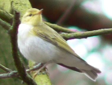 Wood Warbler